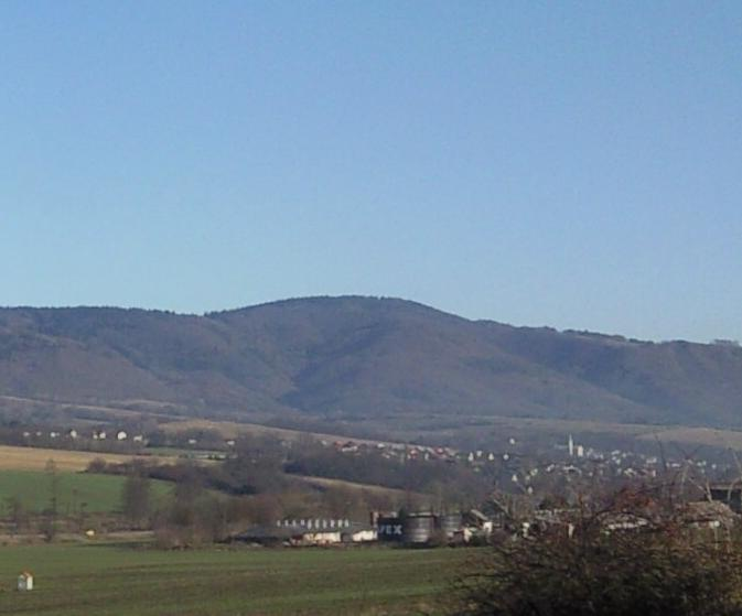 Horenovo in Ziar